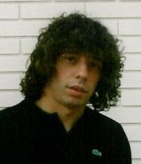 Personal picture of the football player Iván Campo in Spain.